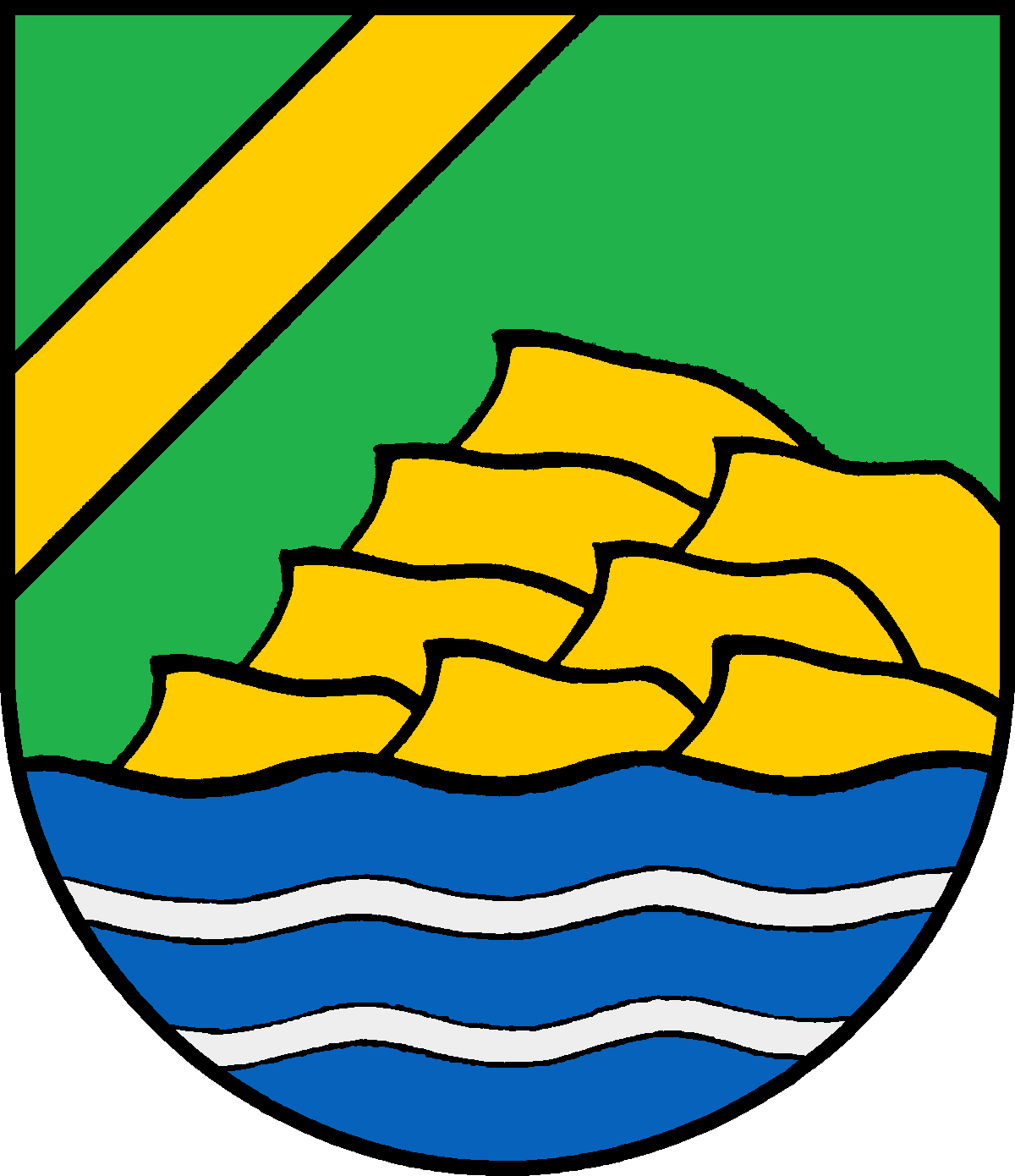 Coat of arms of the former Amt (county) Süderlügum in Schleswig-Holstein, Germany.